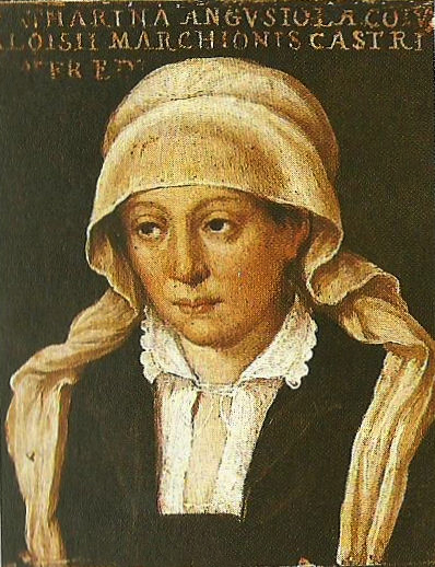 Portrait of Caterina Anguissola (1508-1550), wife of Aloisio Gonzaga